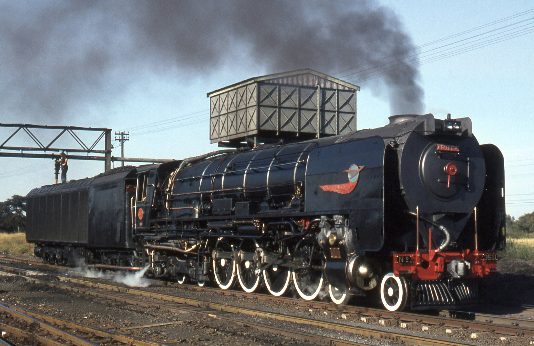 SAR Class 25 3511 (4-8-4) NBL 27371Location: Hartswater